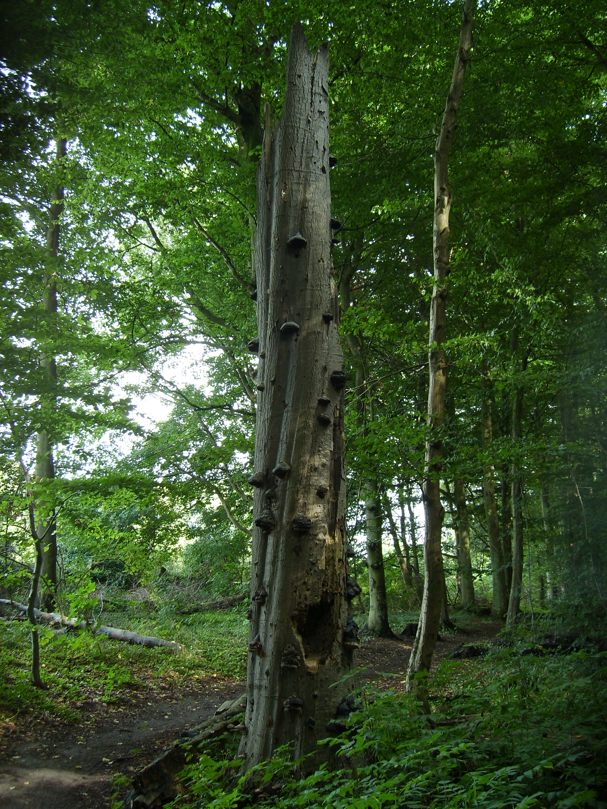 unidentified fungi